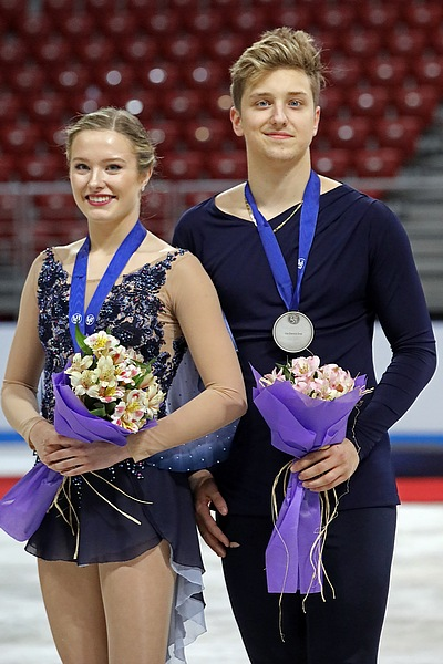 Christina Carreira and Anthony Ponomarenko at the 2018 World Junior Championships